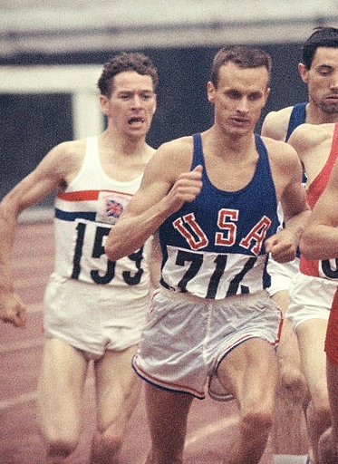 Left-right: Alan Simpson, Dyrol Burleson running the 1,500 m final at the National Stadium during the Tokyo Olympic on October 21, 1964 in Tokyo, Japan.